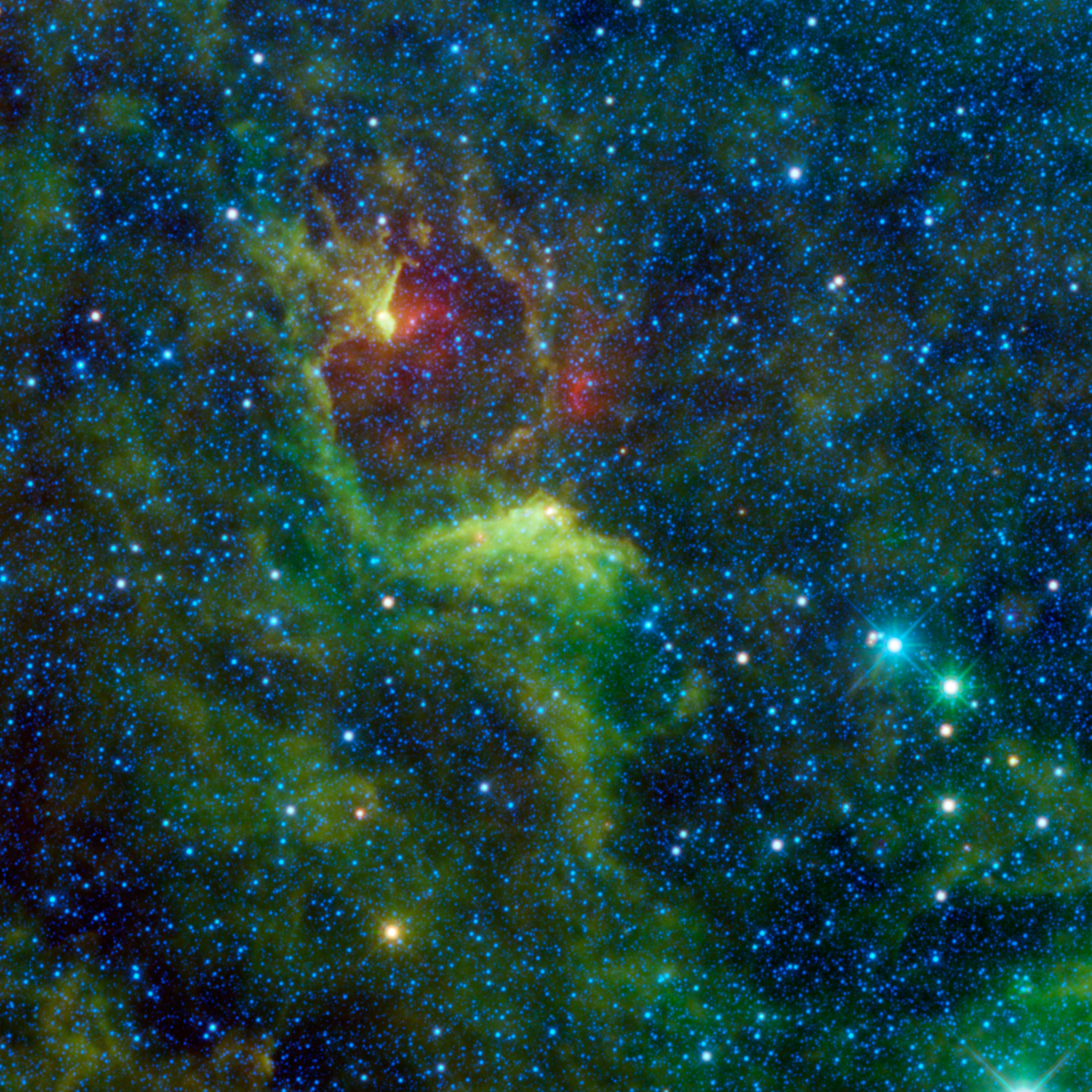 Image of the reflection nebula IRAS 12116-6001. This cloud of interstellar dust cannot be seen directly in visible light, but WISE’s detectors observed the nebula at infrared wavelengths. The bright blue star on the right side of the image is the variable star Epsilon Crucis. The colours used in this image represent specific wavelengths of infrared light. The blue colour of Epsilon Crucis represents light emitted at 3.4 and 4.6 microns. The green-coloured star seen beside Epsilon Crucis is emitting light at 12 microns. This star is IRAS 12194-6007, a carbon star that is near the end of its life-cycle. Since the infrared wavelengths emitted by this star are longer than those from Epsilon Crucis, it is cooler. The green and red colours seen in the reflection nebula represent 12- and 22-micron light coming from the nebula’s dust grains warmed by nearby stars.